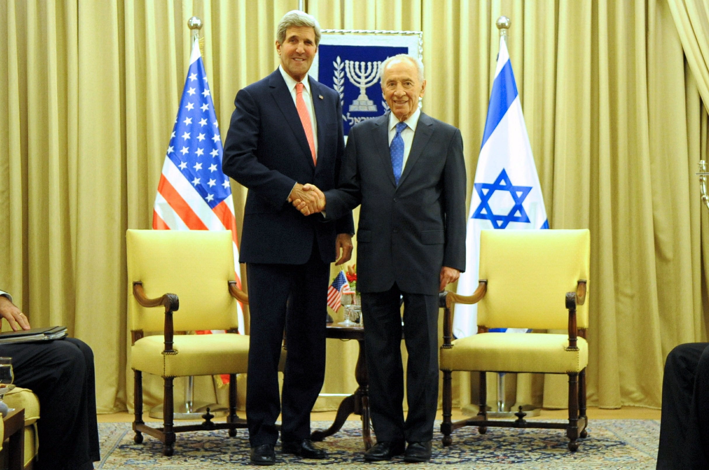 U.S. Secretary of State John Kerry and Israeli President Shimon Peres shake hands for reporters before making statements about Middle East peace at outset of a meeting in Jerusalem on November 6, 2013. [State Department photo/ Public Domain]